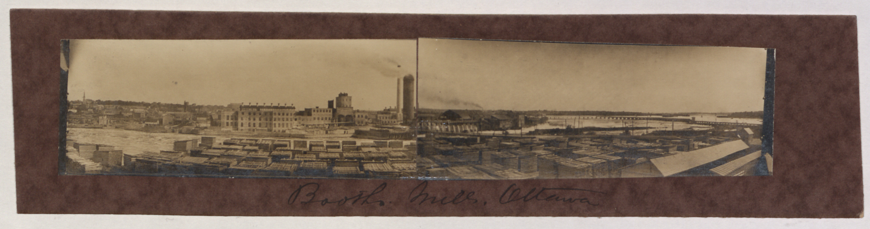 Booths Mills Ottawa.